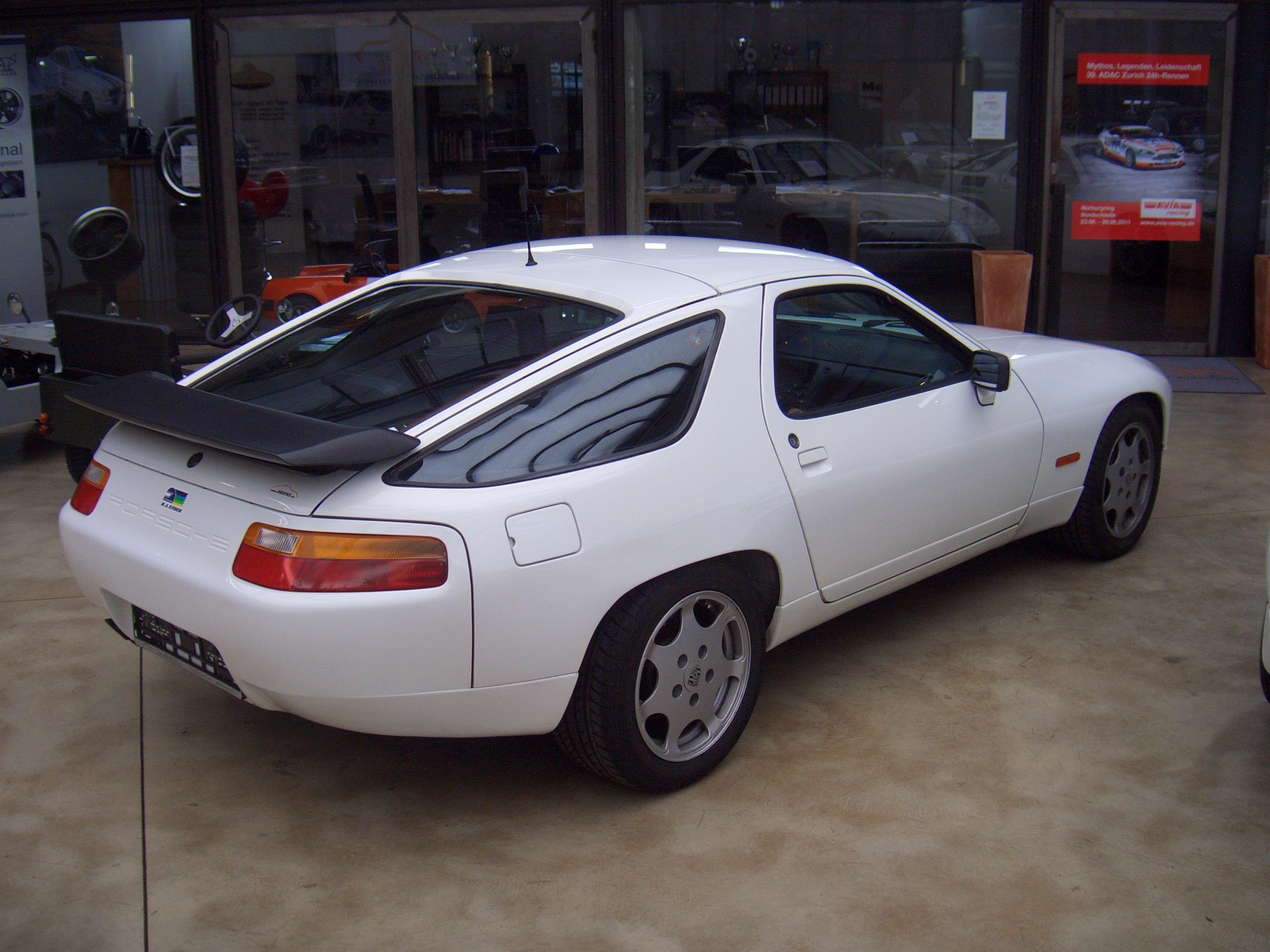 Porsche 928 S4 Clubsport pre-series prototype, 1987, only 4 built, provided by Porsche to the works drivers Hans-Joachim Stuck, Derek Bell, Jochen Maass and Bob Wollek, this car driven by Hans-Joachim Stuck, seen at CLASSIC REMISE, Dusseldorf, Germany